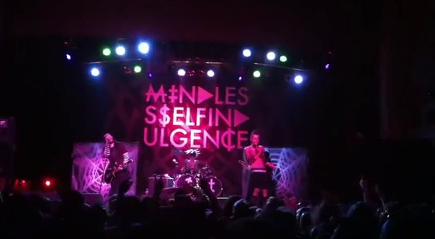 Mindless Self Indulgence on-stage at The Trocadero Theatre on 3/7/2012